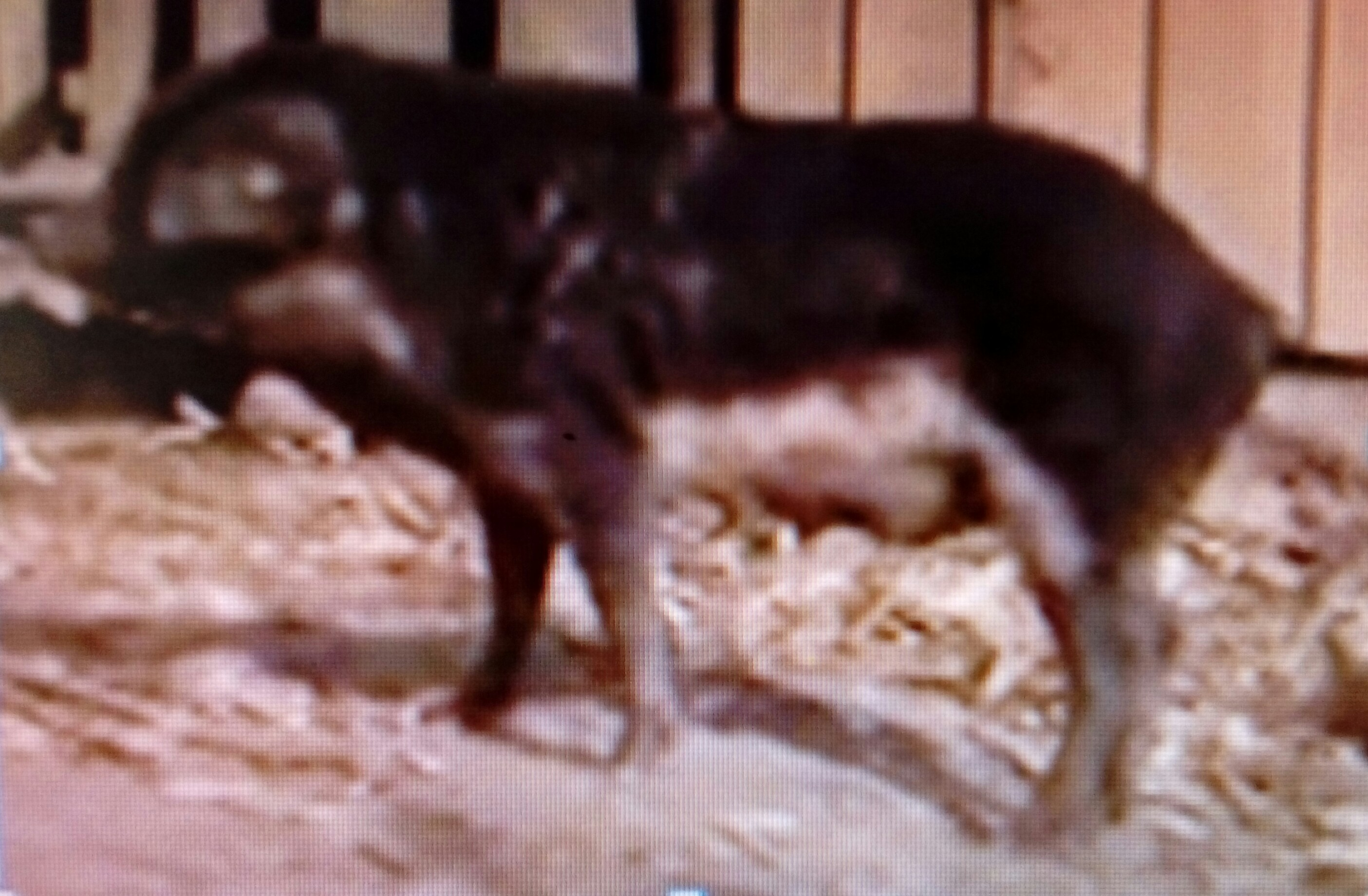 Moravka je rasa svinje koja se gaji zbog masi i mesa